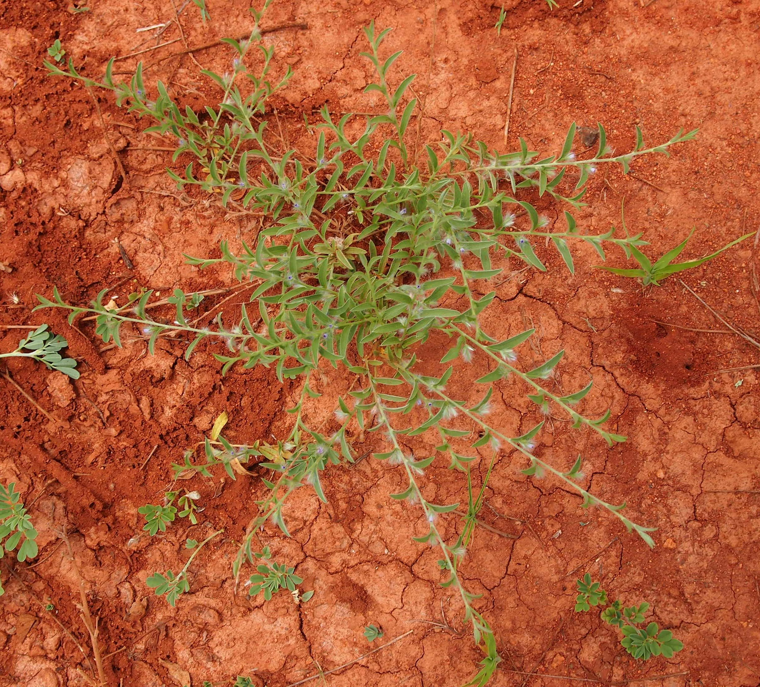 Evolvulus alsinoides habit